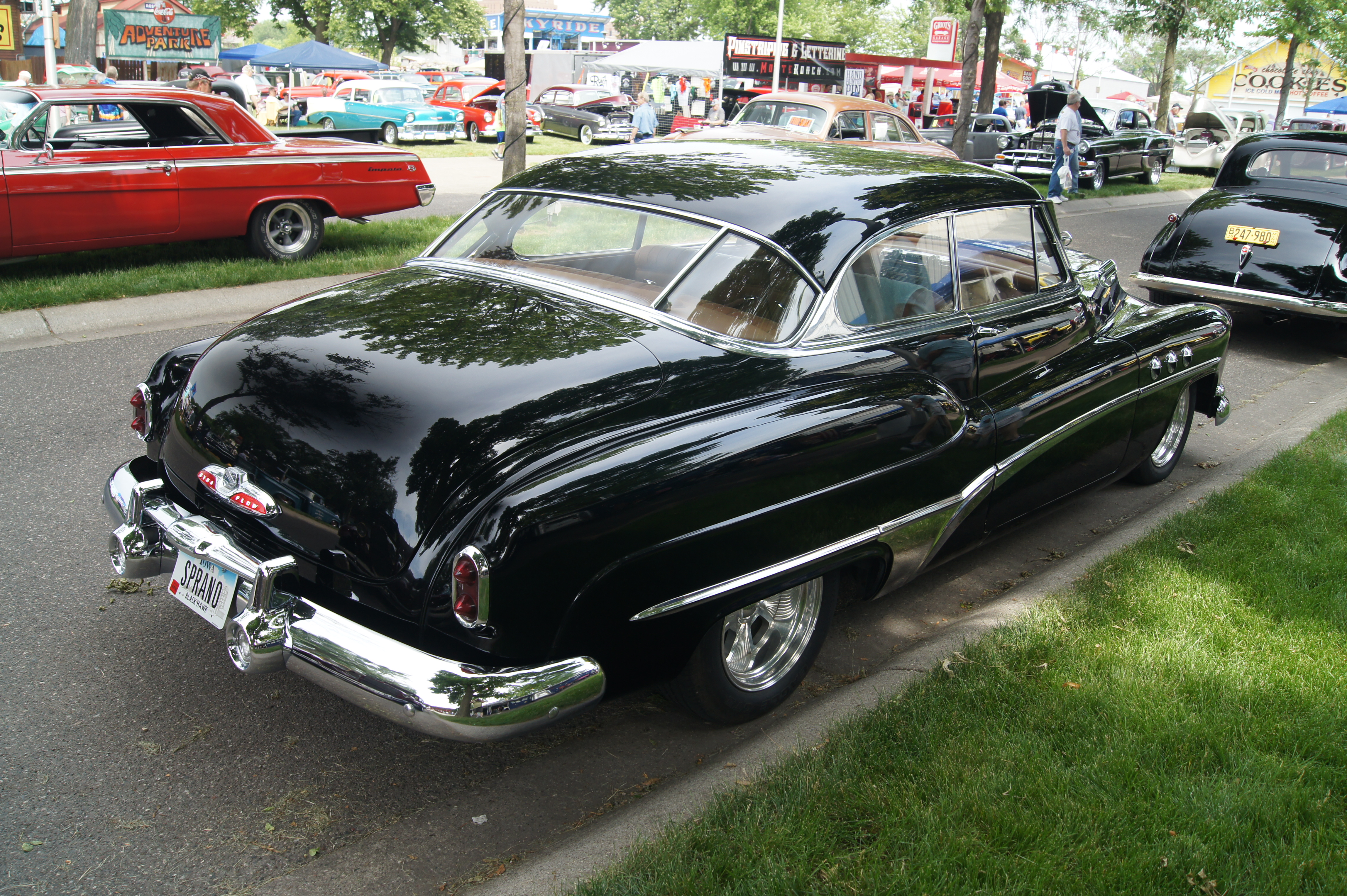 MSRA “BACK TO THE 50′s” 42nd Annual June 19-21, 2015 State Fairgrounds St. Paul Minnesota Click here for more car pictures at my Flickr site.